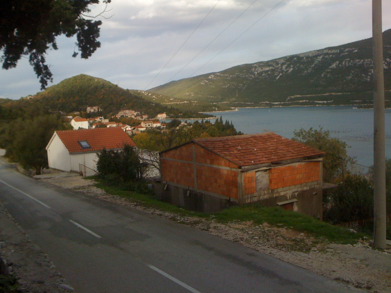 Hodilje